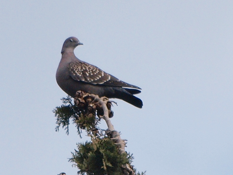 A Spot-winged Pigeon in La Plata, Buenos Aires, Argentina.